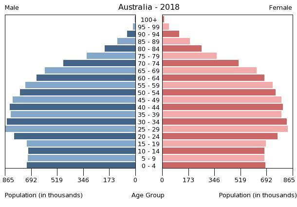 The population pyramid of Australia illustrates the age and sex structure of population and may provide insights about political and social stability, as well as economic development. The population is distributed along the horizontal axis, with males shown on the left and females on the right. The male and female populations are broken down into 5-year age groups represented as horizontal bars along the vertical axis, with the youngest age groups at the bottom and the oldest at the top. The shape of the population pyramid gradually evolves over time based on fertility, mortality, and international migration trends.